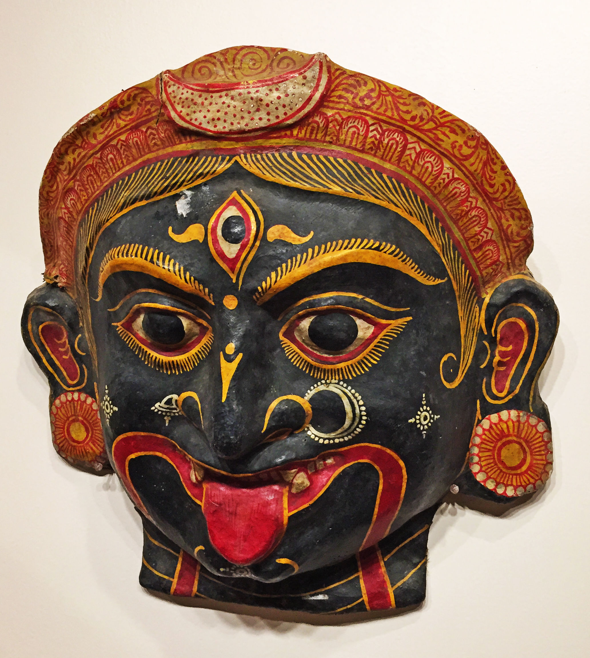 Papier-mâché mask at Odisha Crafts Museum, Bhubaneswar, Odisha, India. ଓଡ଼ିଆ: ଭାରତର ଓଡ଼ିଶାସ୍ଥିତ ଭୁବନେଶ୍ୱରରେ ଥିବା କଳା ଭୂମିରେ (ଓଡ଼ିଶା ହସ୍ତଶିଳ୍ପ ସଂଗ୍ରହାଳୟ) ଥିବା ଏକ କାଠତିଆରି ମୁଖା । ।